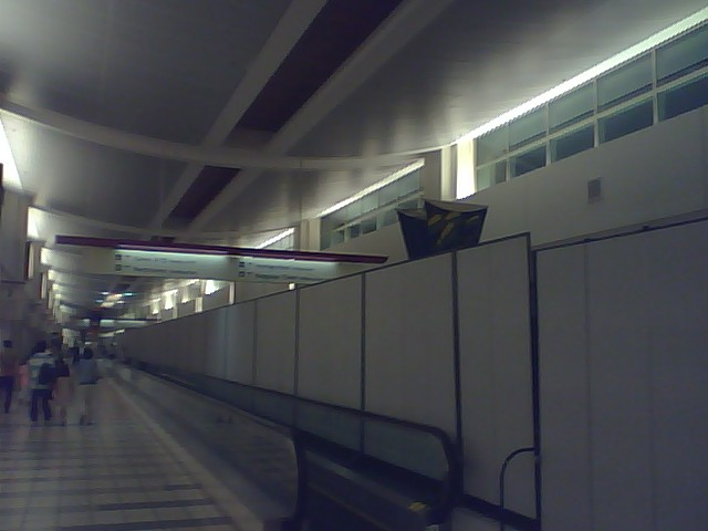 Semi-permanent barriers separating arrival and departure foot traffic in the passenger terminal of Antonio B. Won Pat International Airport, Guam